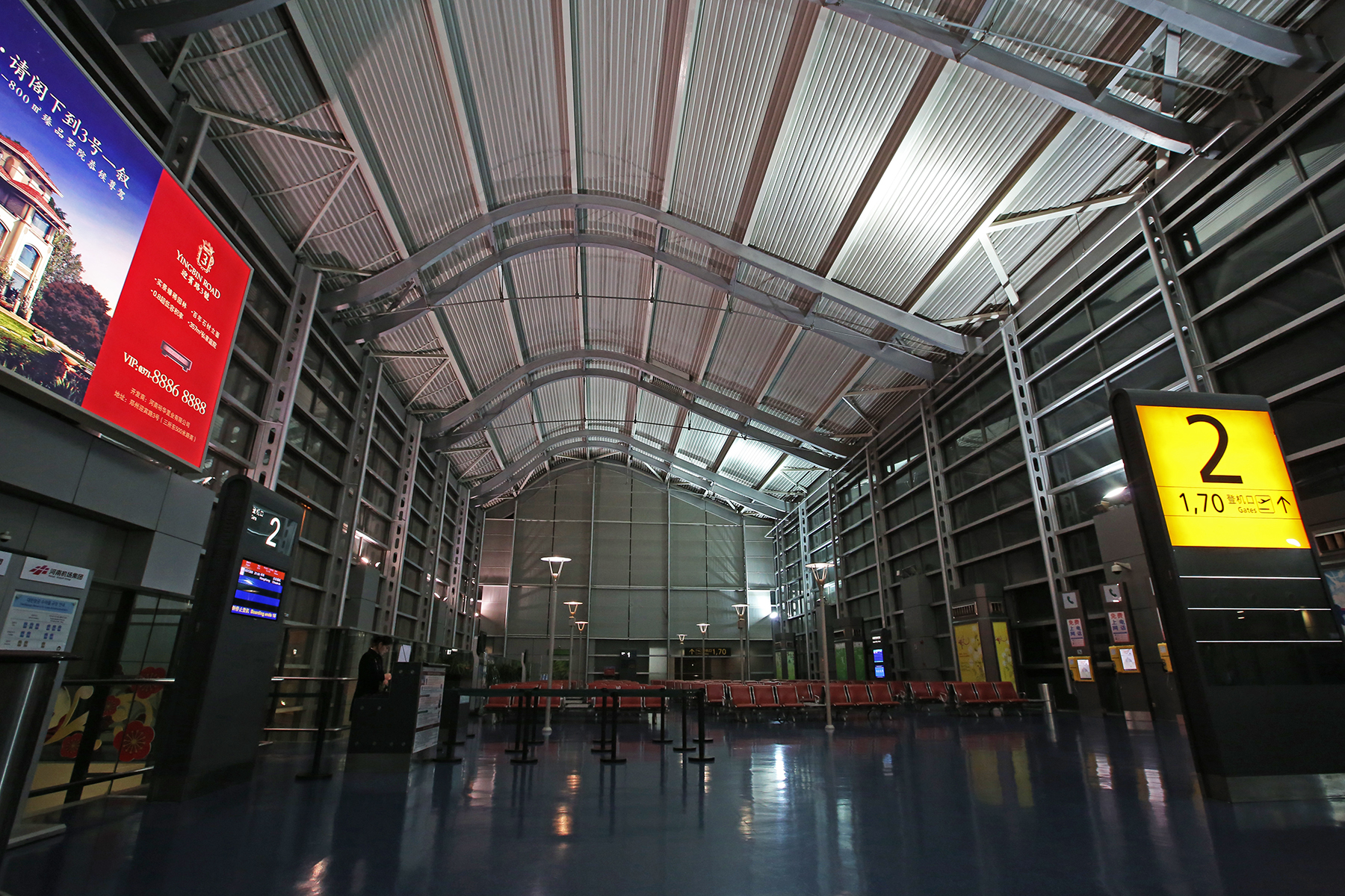 Terminal 1 of Zhengzhou Xinzheng International Airport